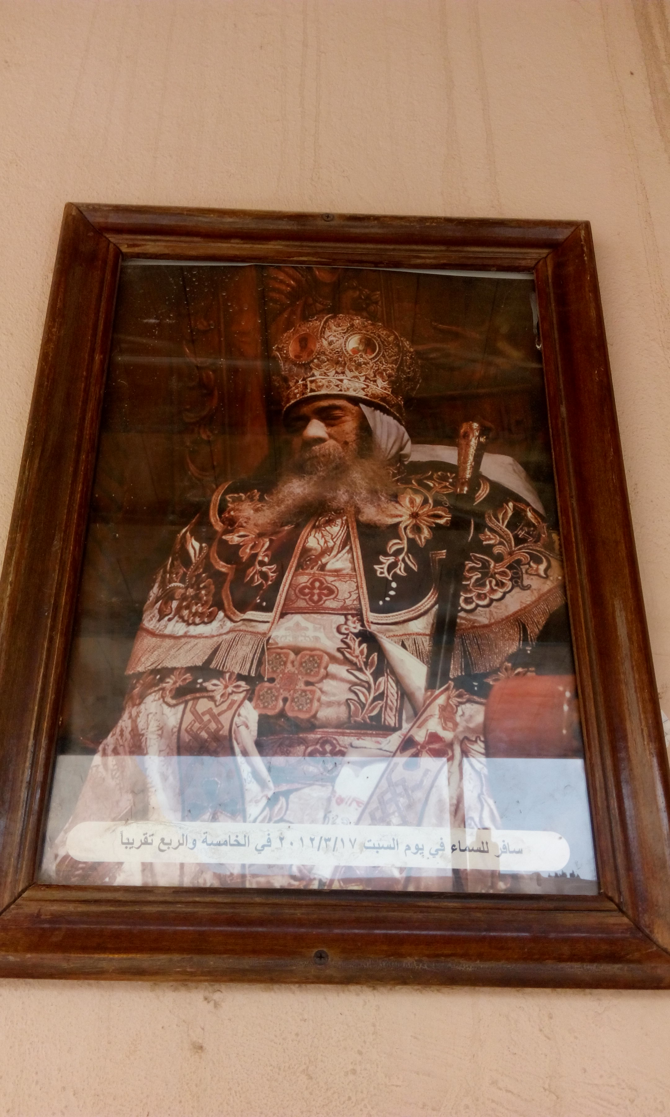 Pope Shenouda III shrine